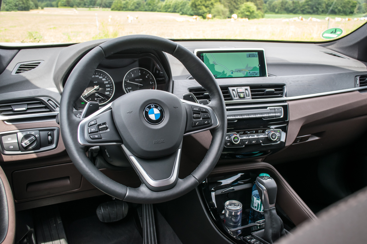 Interior of the BMW X1 F48, 2016 model year